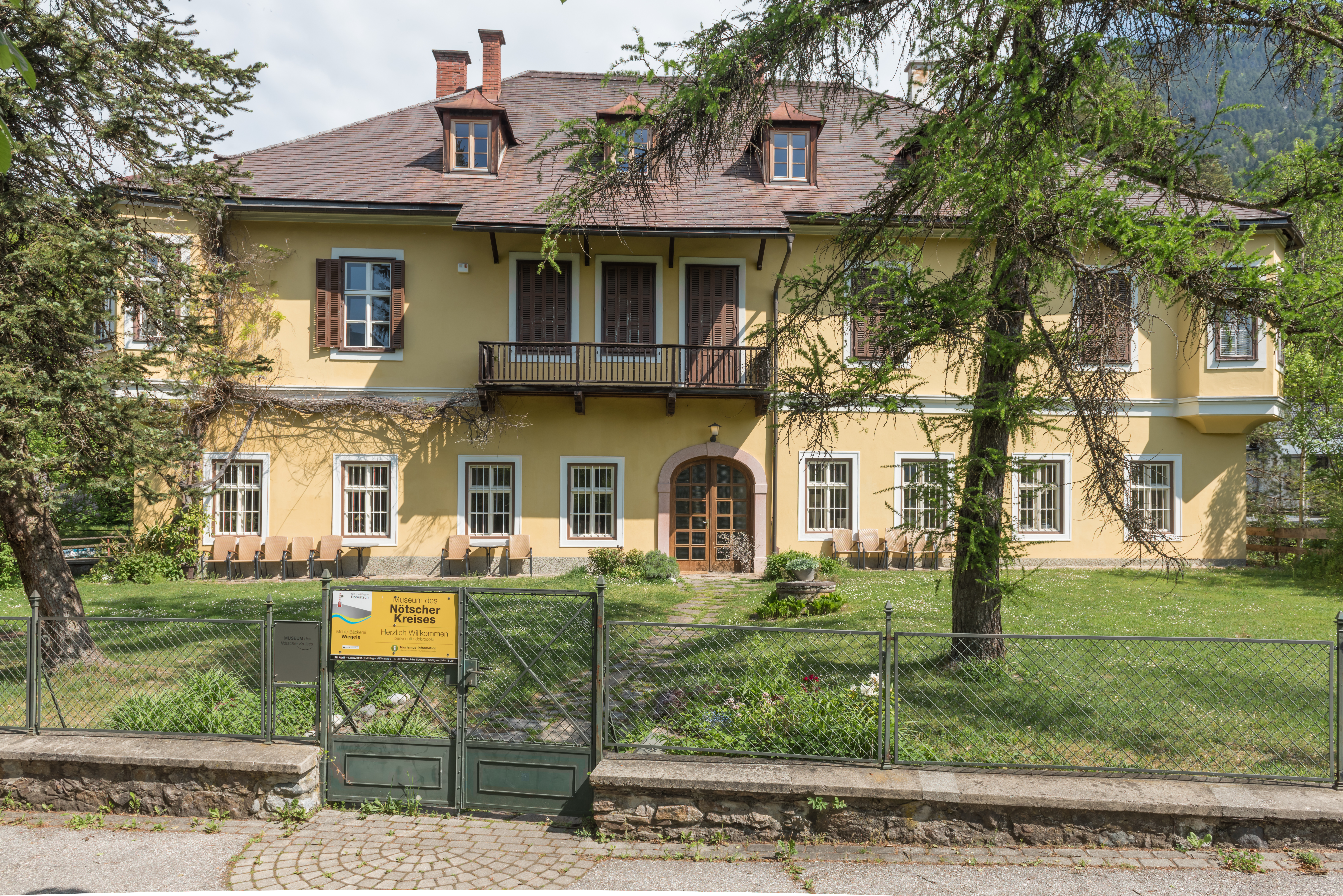 House Wiegele, museum of the Noetsch Circle, market town Noetsch, district Villach Land, Carinthia, Austria, European Union